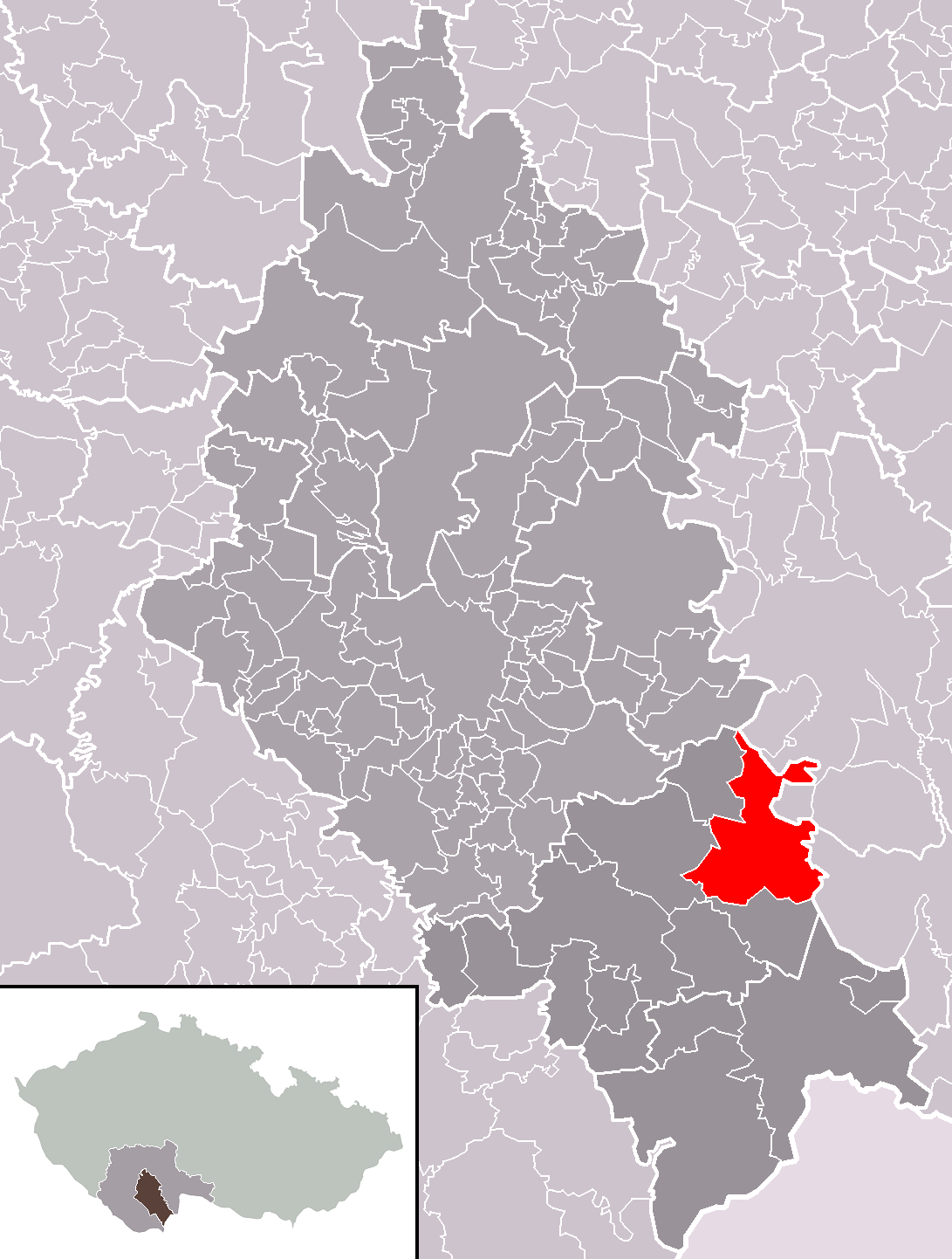 Location of Jílovice municipality within České Budějovice District and administrative area of Trhové Sviny as a Municipality with Extended Competence.